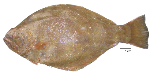 Psettodes erumei by K.V.Akhilesh, K.K.Bineesh, India, Cochin, 60cm, August-2010